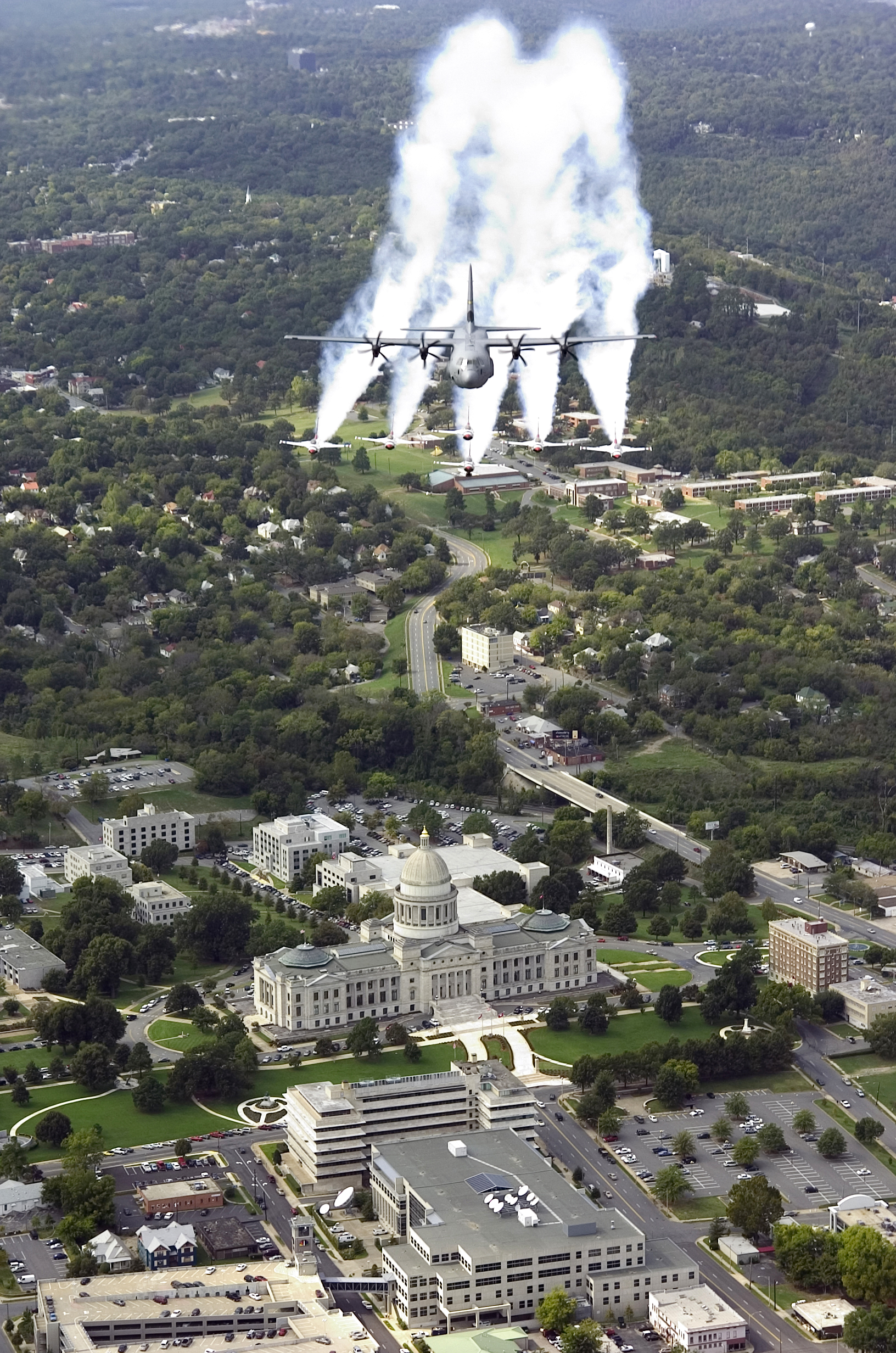 A C-130 Hercules leads Air Force Thunderbirds during a flyover of downtown Little Rock, Ark. The Thunderbirds were the main attraction for the base's 50th Anniversary Air Show on Oct. 7. The show brought crowds of more than 150,000 people to the base. Other performers included Team Aeroshell, the Red Baron Pizza Squadron and Shockwave the Jet Truck.